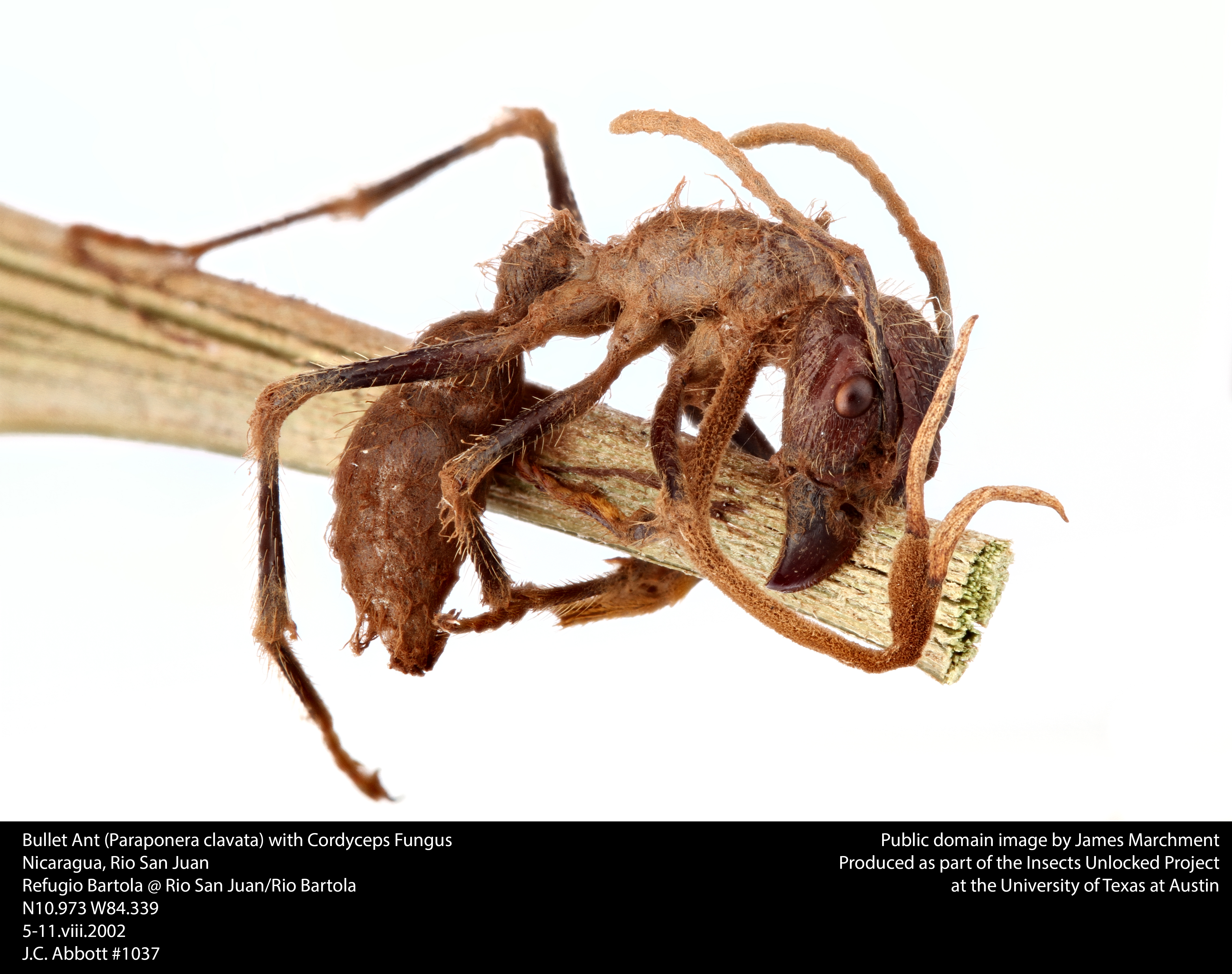 Paraponera clavata infected by Cordyceps This image was created as part of the Insects Unlocked project at the University of Texas at Austin. Based in the UT insect collection at Brackenridge Field Laboratory, part of the Department of Integrative Biology. Do not crop: This image is used on one or more sister projects, where its entire contents are wanted. If you crop it, please save the new image separately, and do not overwrite this one.